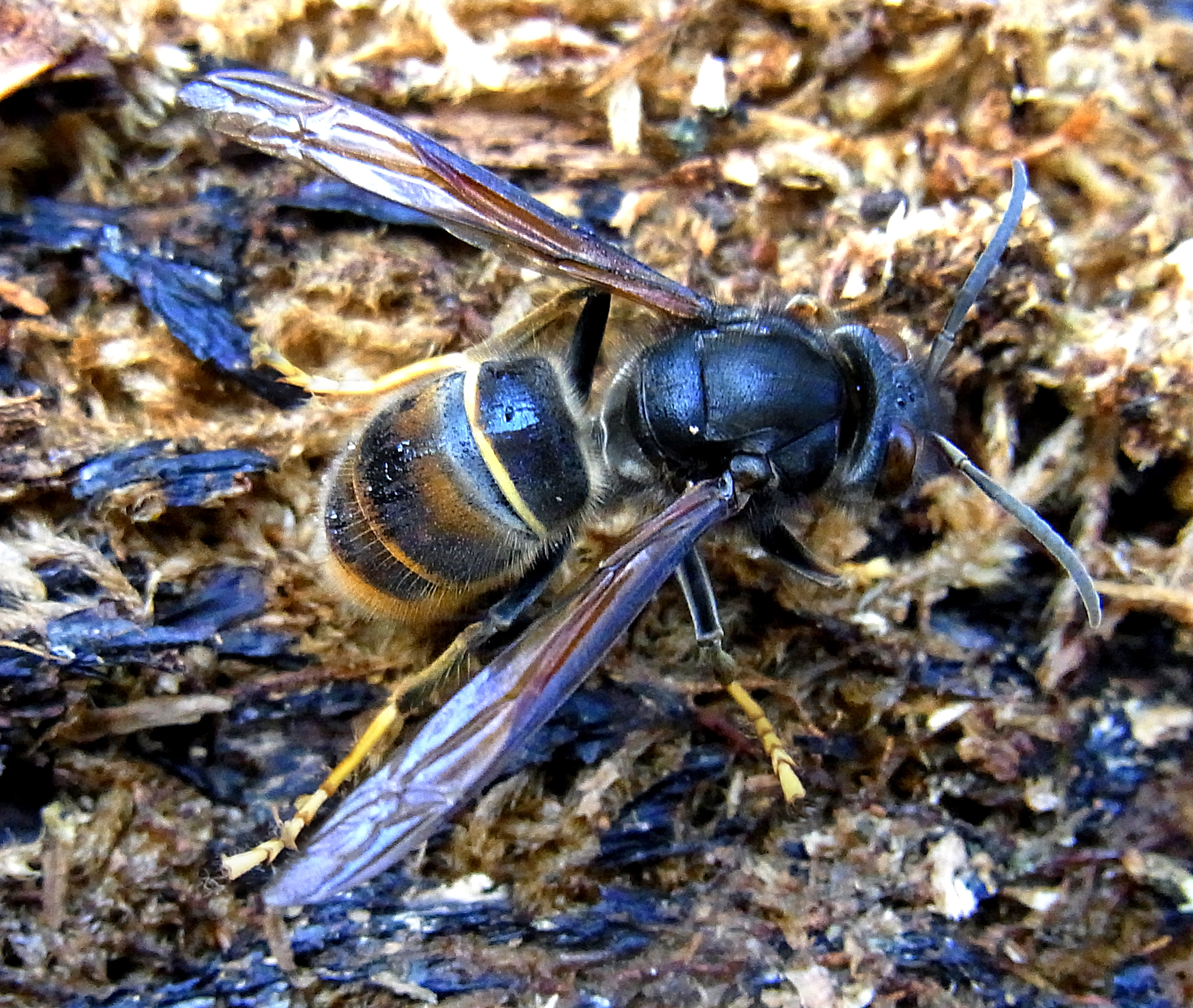 Vespa velutina from France near Limoges under the bark of dead tree for shelter in winter